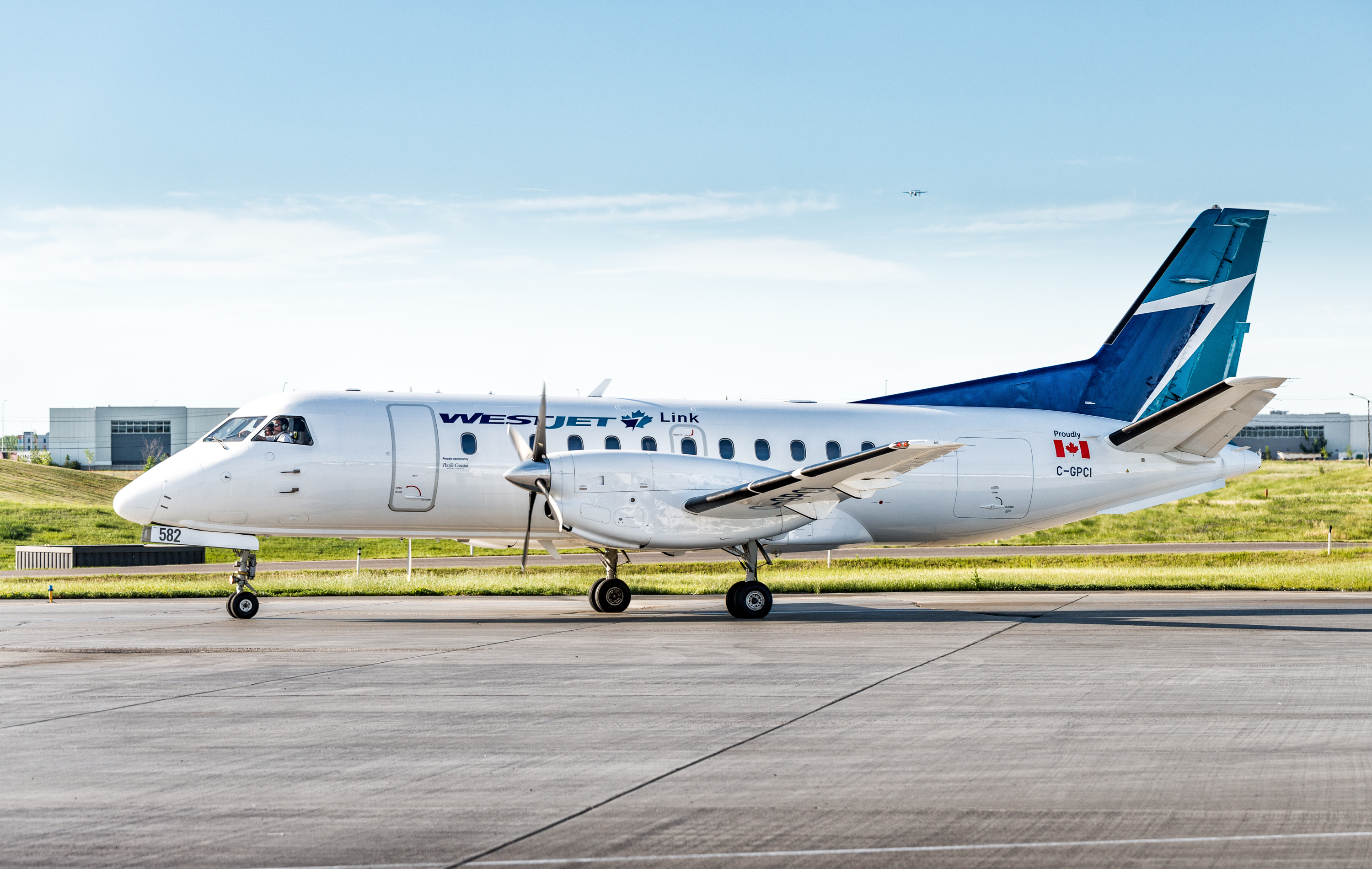 WestJet Link aircraft at Calgary international airport, August 2018.